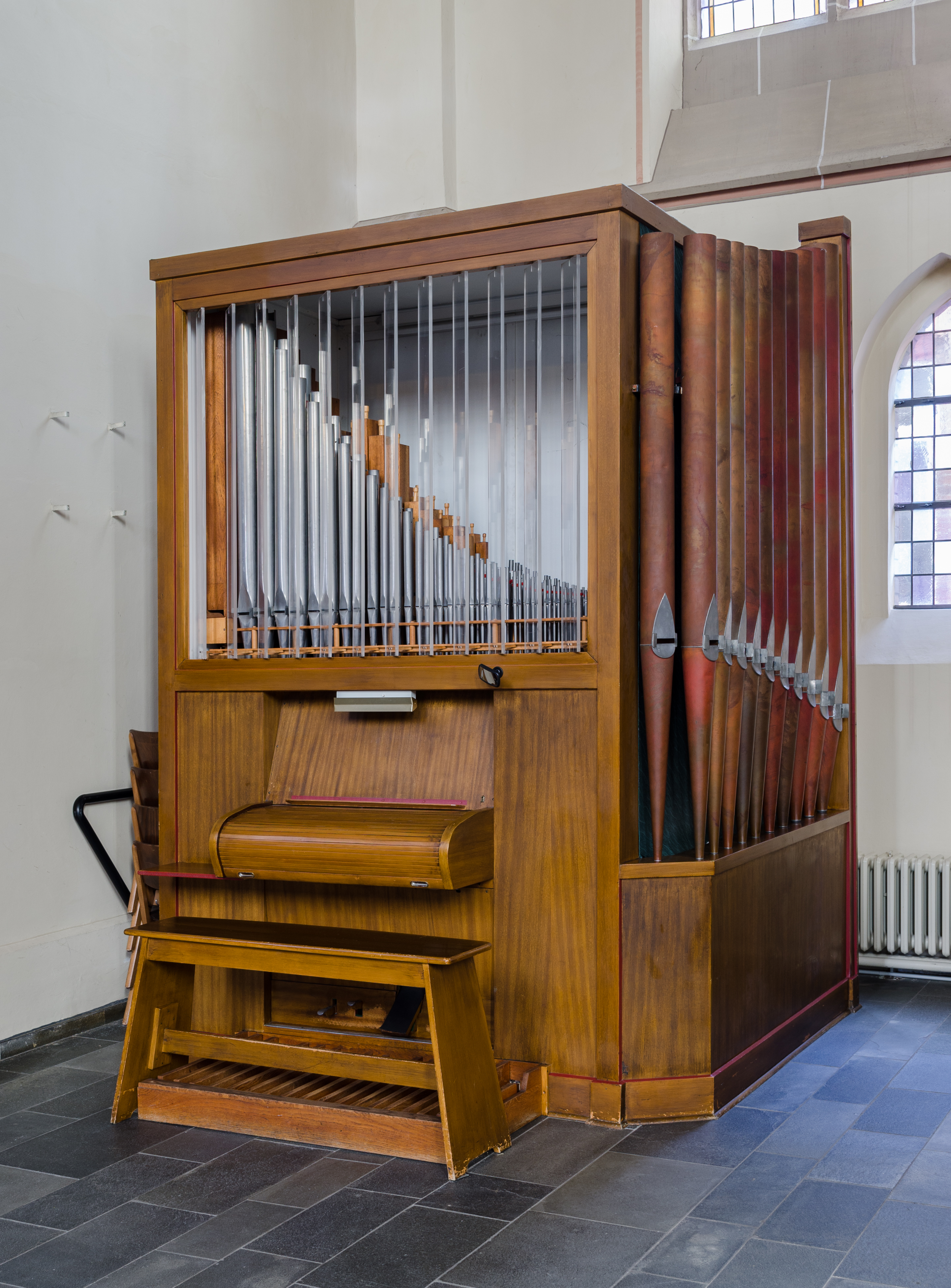 Mülheim (North Rhine-Westphalia, Germany) – district Speldorf – Protestant Luther Church – pipe organ by Peter organ building in the right aisle